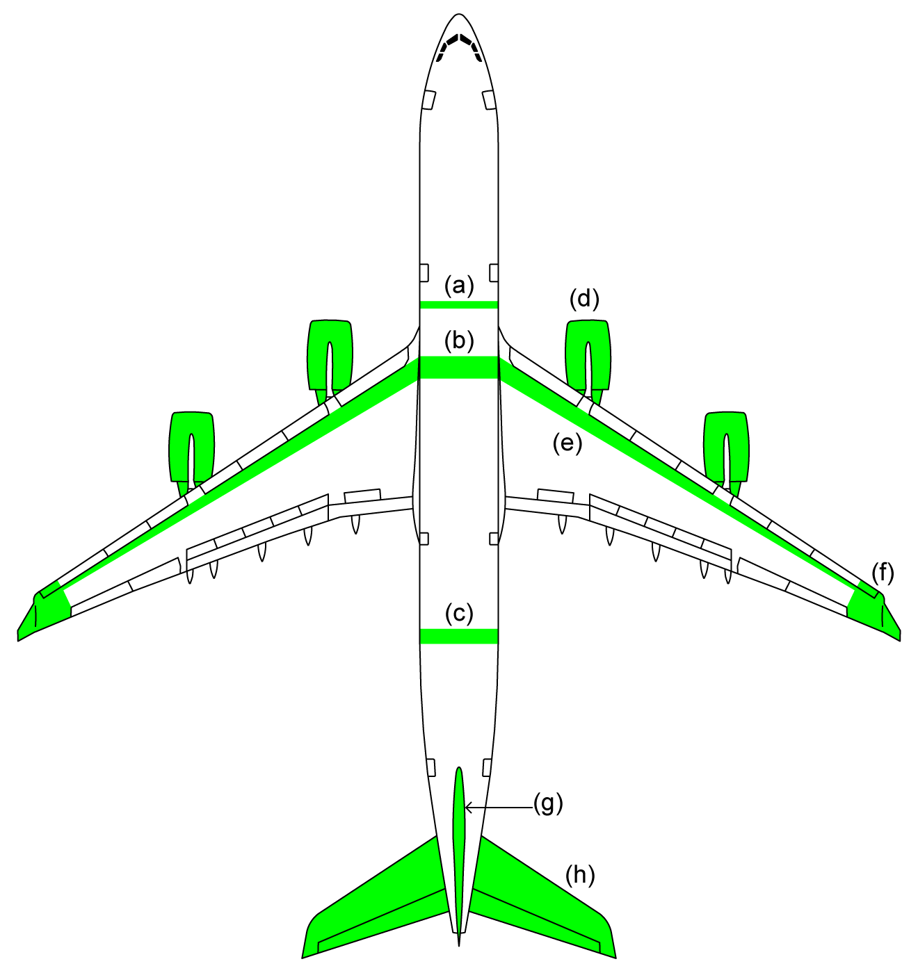 Schematic illustration of major changes of Airbus A340-500 from A340-300. This picture is drawn referring to "Long time coming", Flight International, pp. 126-132, (12-18 June 2001) and "Long-range little sister", Flight International, pp. 48-56, (23-29 July 2002).